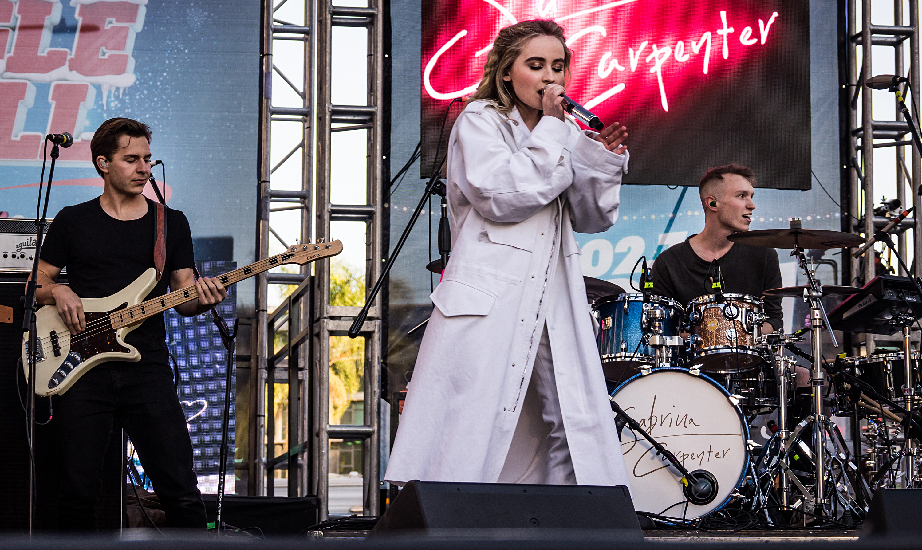 Sabrina Carpenter performing live at the 102.7 KIIS FM Jingle Ball Village, outside Staples Center in downtown Los Angeles, California, on Friday, December 2, 2016.